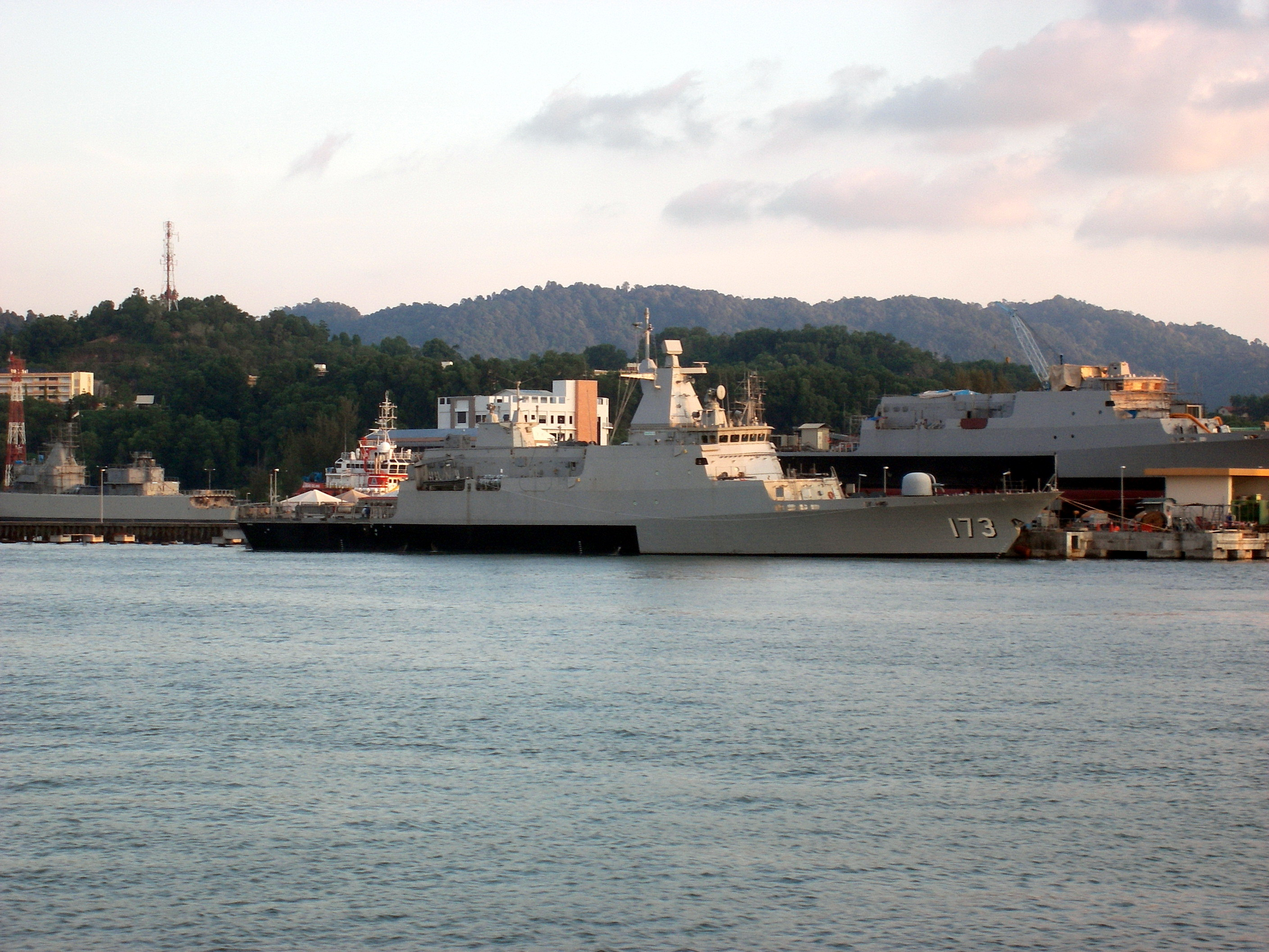 Offshore Patrol Vessel (OPV) of the Royal Malaysian Navy Perak